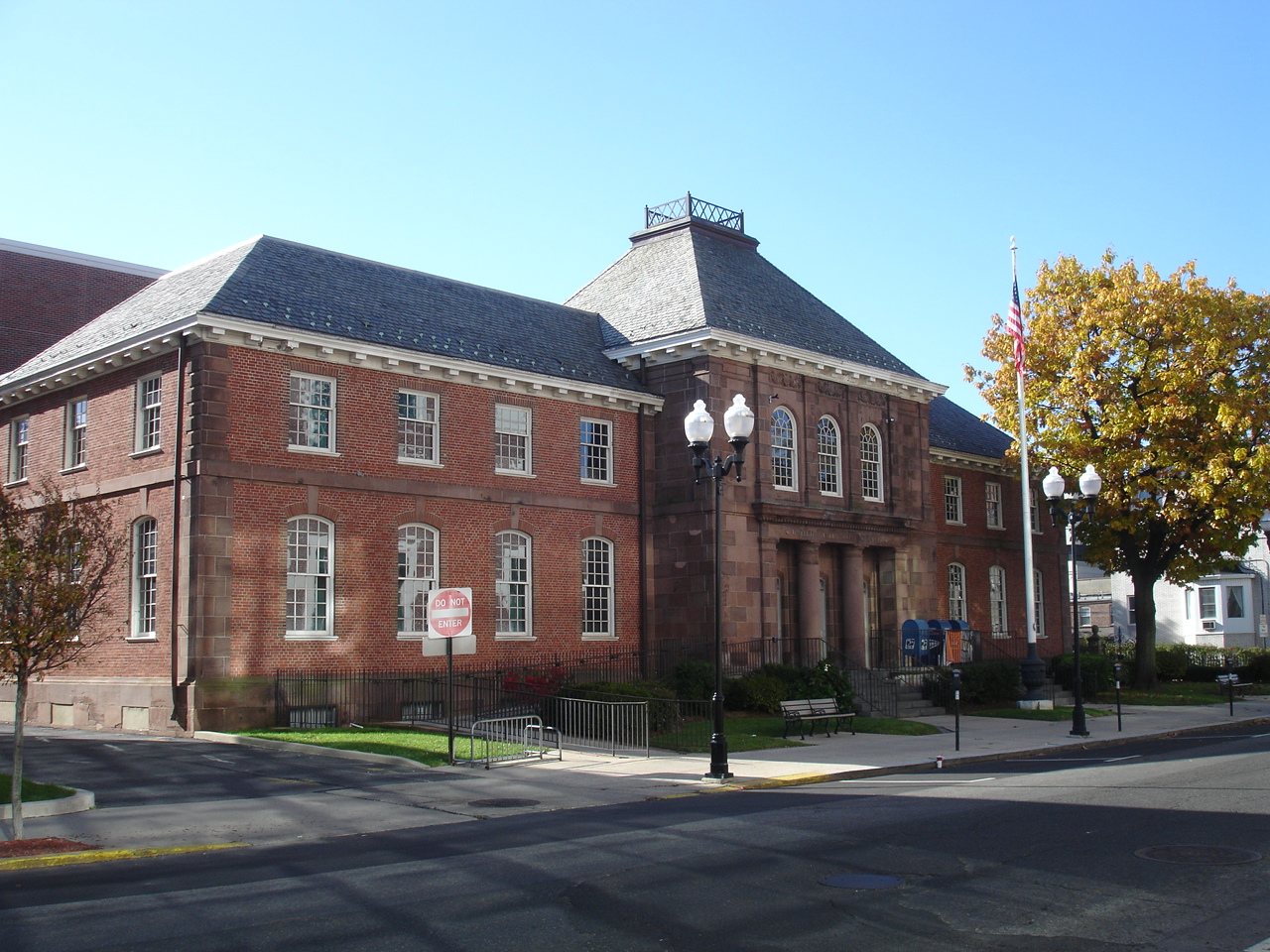 I took this photo myself on November 6, 2011.